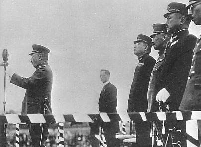 Japanese VIP before Hongkou (Hongkew) Park Bombing Incident that killed several Japanese dignitaries